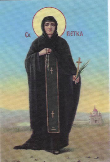 Saint Paraskevi. Serbian saint. Source URL